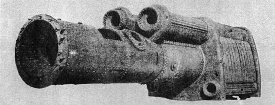 Boiler of Delaware & Hudson Railroad Nr 1400 high-pressure steam locomotive